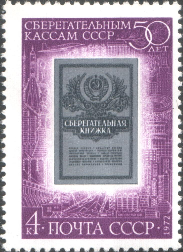 USSR stamp